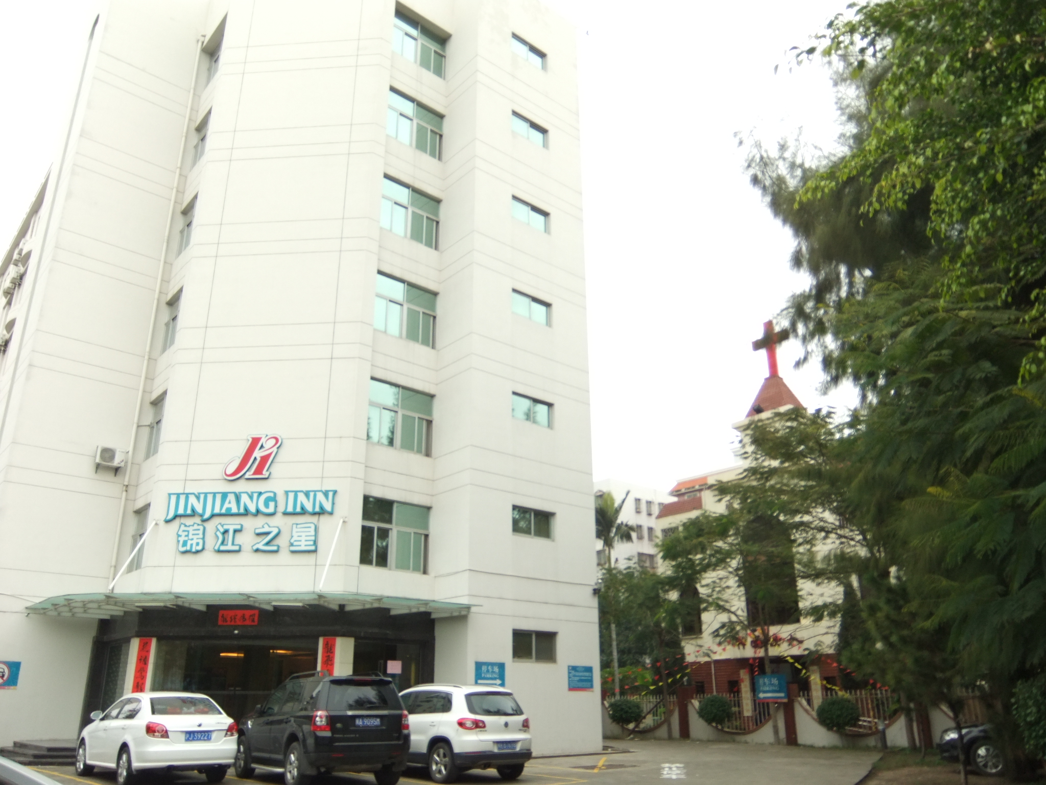 Jimei Church, in Xunjiang Rd, Jimei District, Xiamen. There is a Jinjiang Inn next to it.